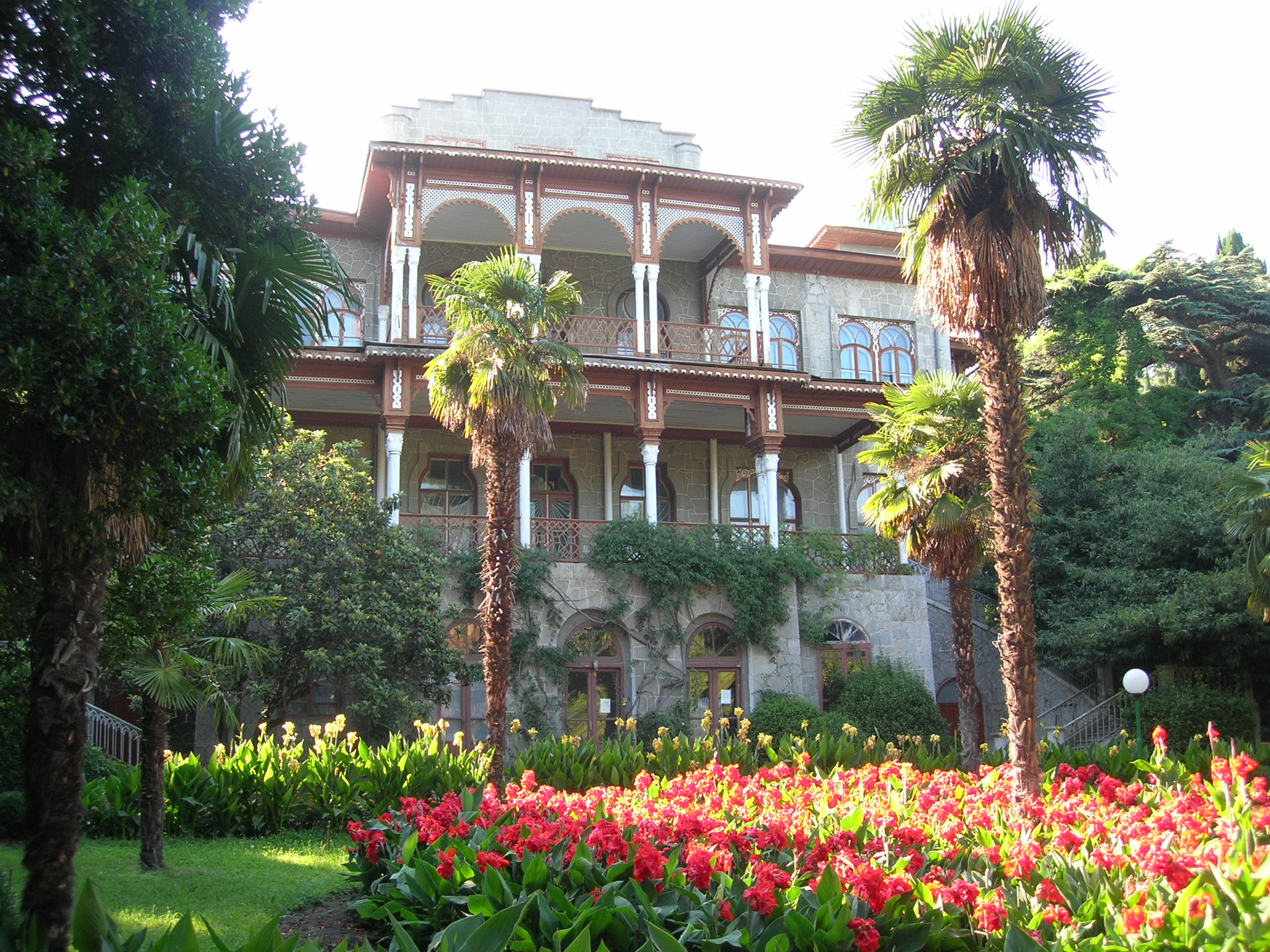 Karasan resort. Adminisrativ building